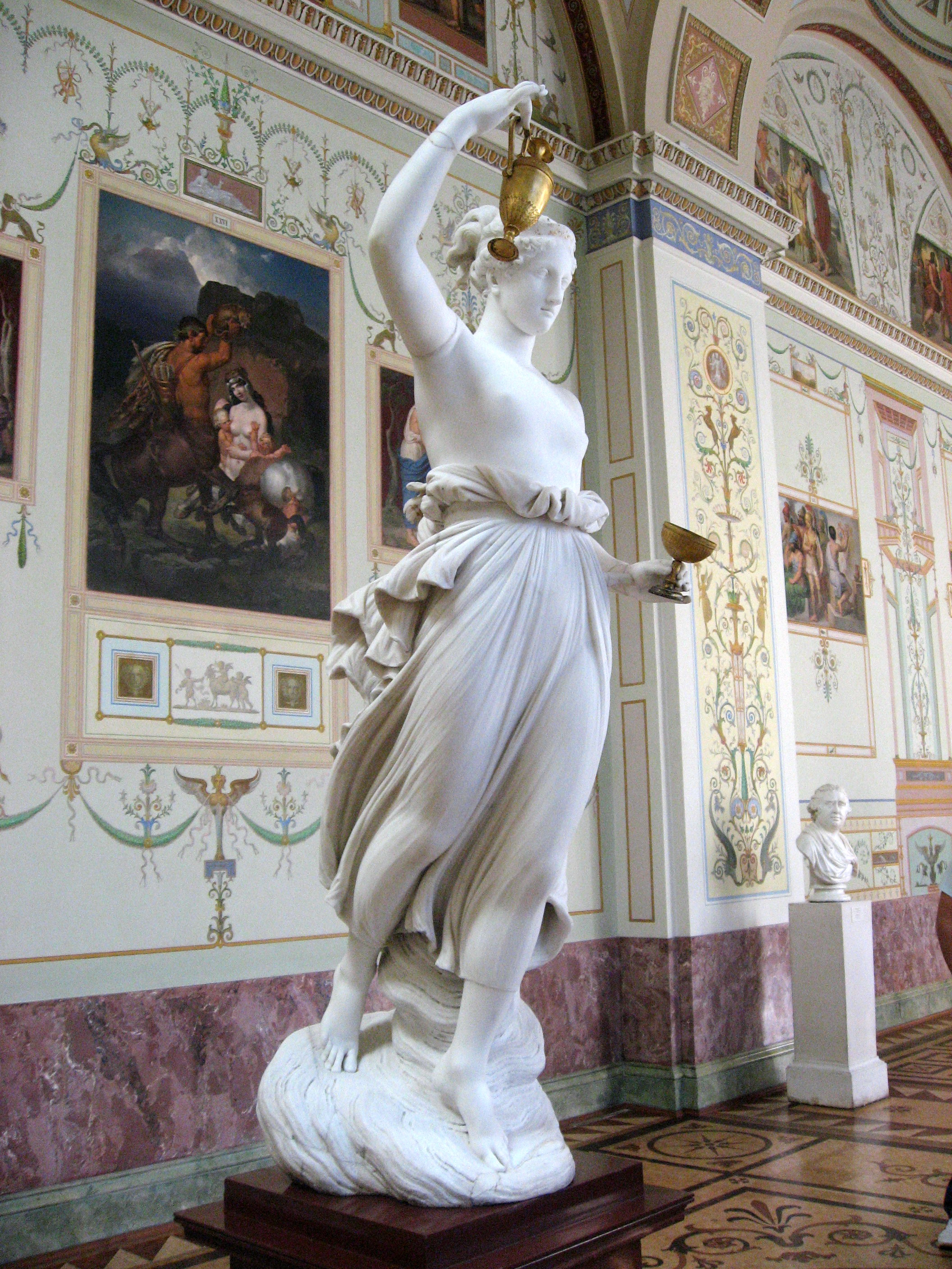 Ermitáž